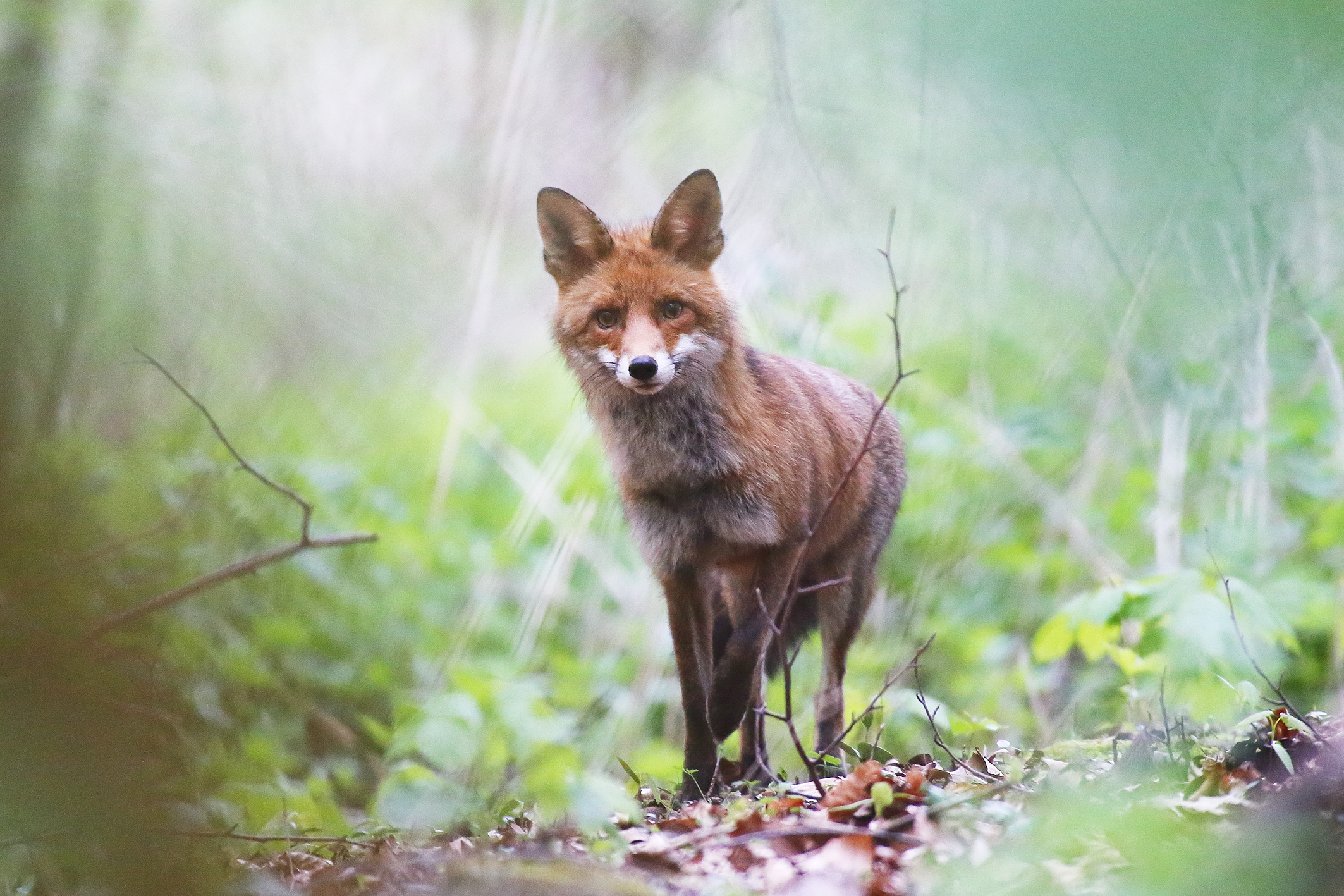 A red fox (Vulpes vulpes) looks to the photographer in a nature reserve in Bochum/Germany on 2017-04-19. Photo: Lutz Leitmann